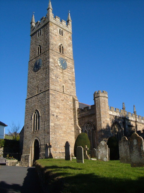 Bovey Tracey church A magnificent granite tower, and magnificent dedication: St Peter, St Paul and St Thomas of Canterbury.